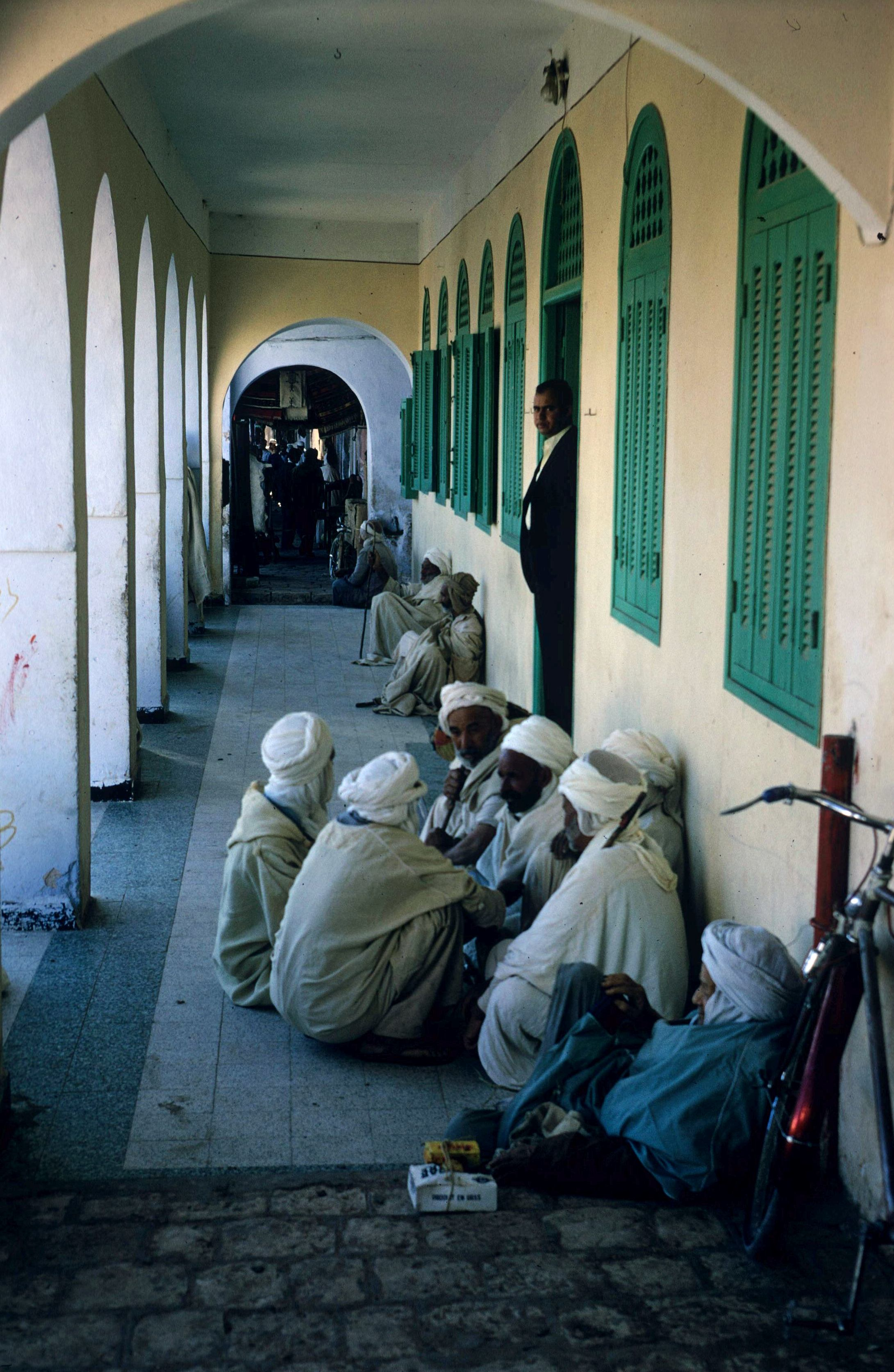 arcaded main square, Ghardaia, Algeria